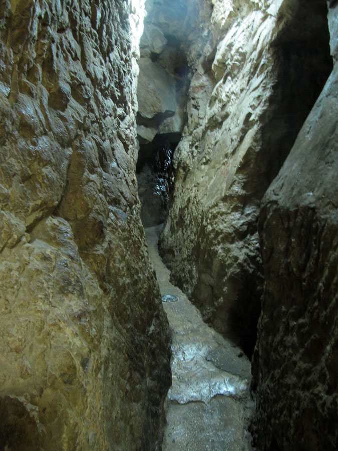 Hezekiah's Tunnel